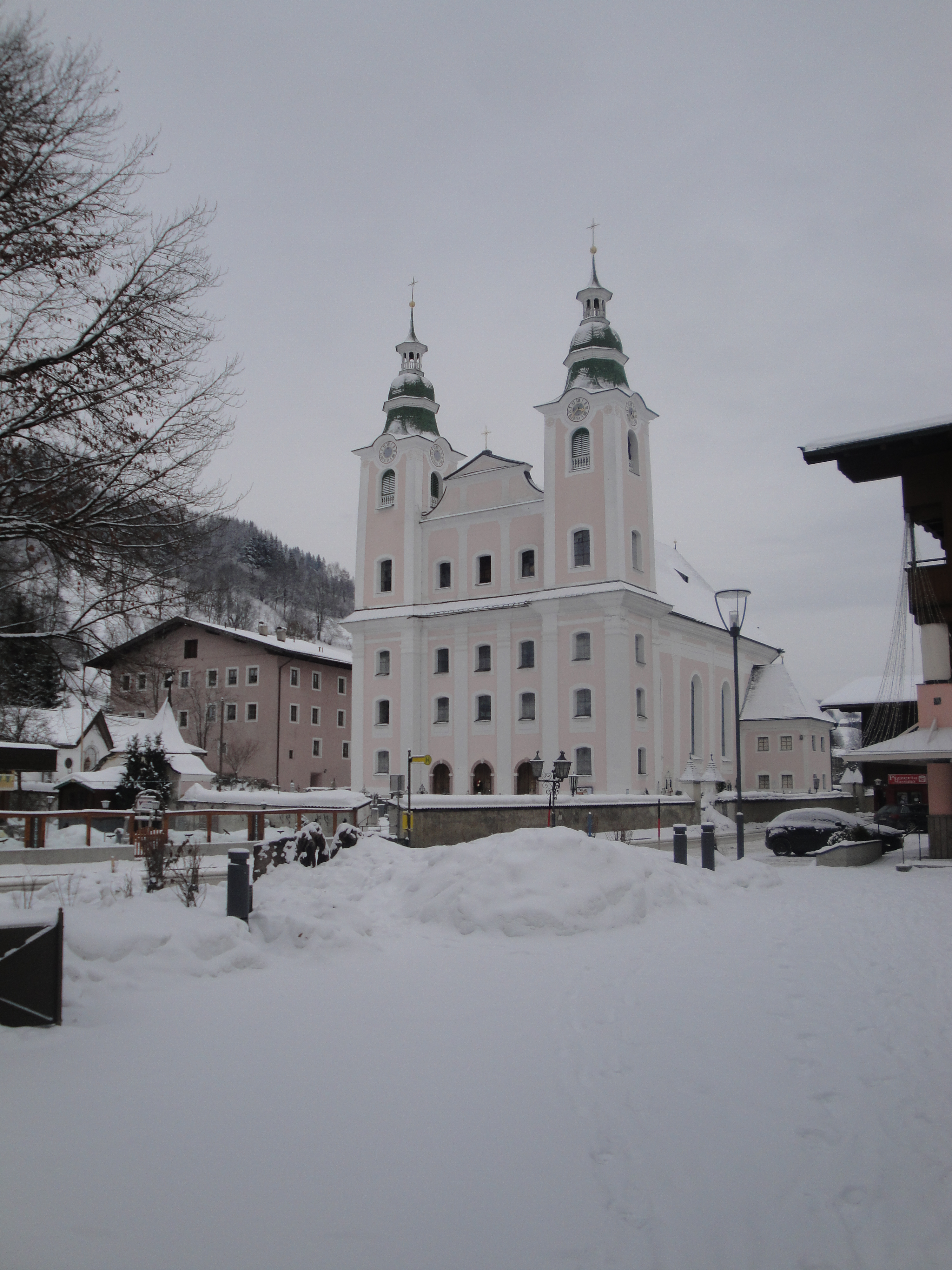 Church of Brixen im Thale